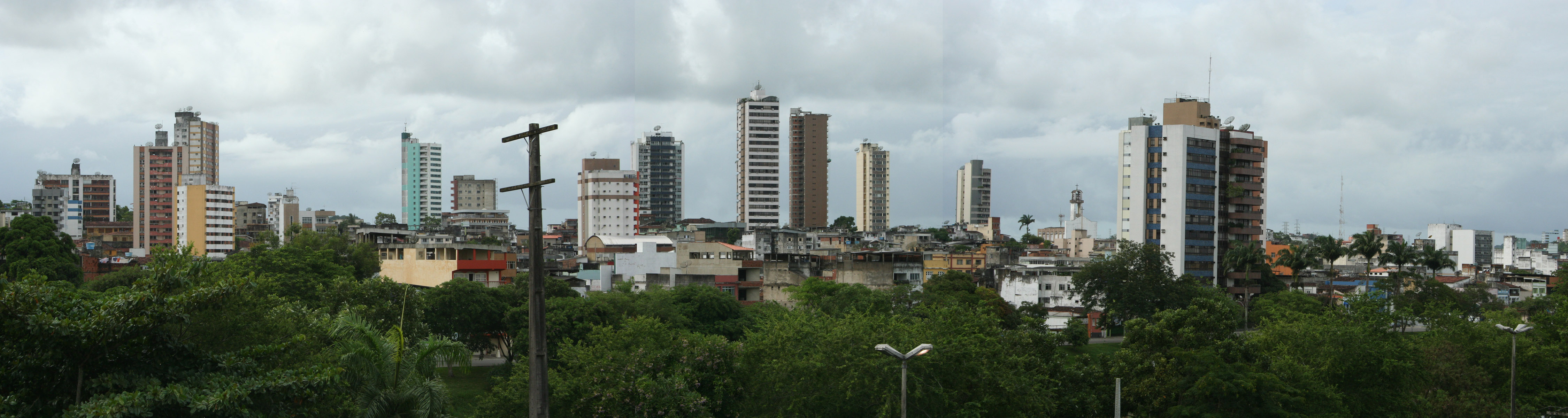 Tim Dressler - Canon ELPH Edited